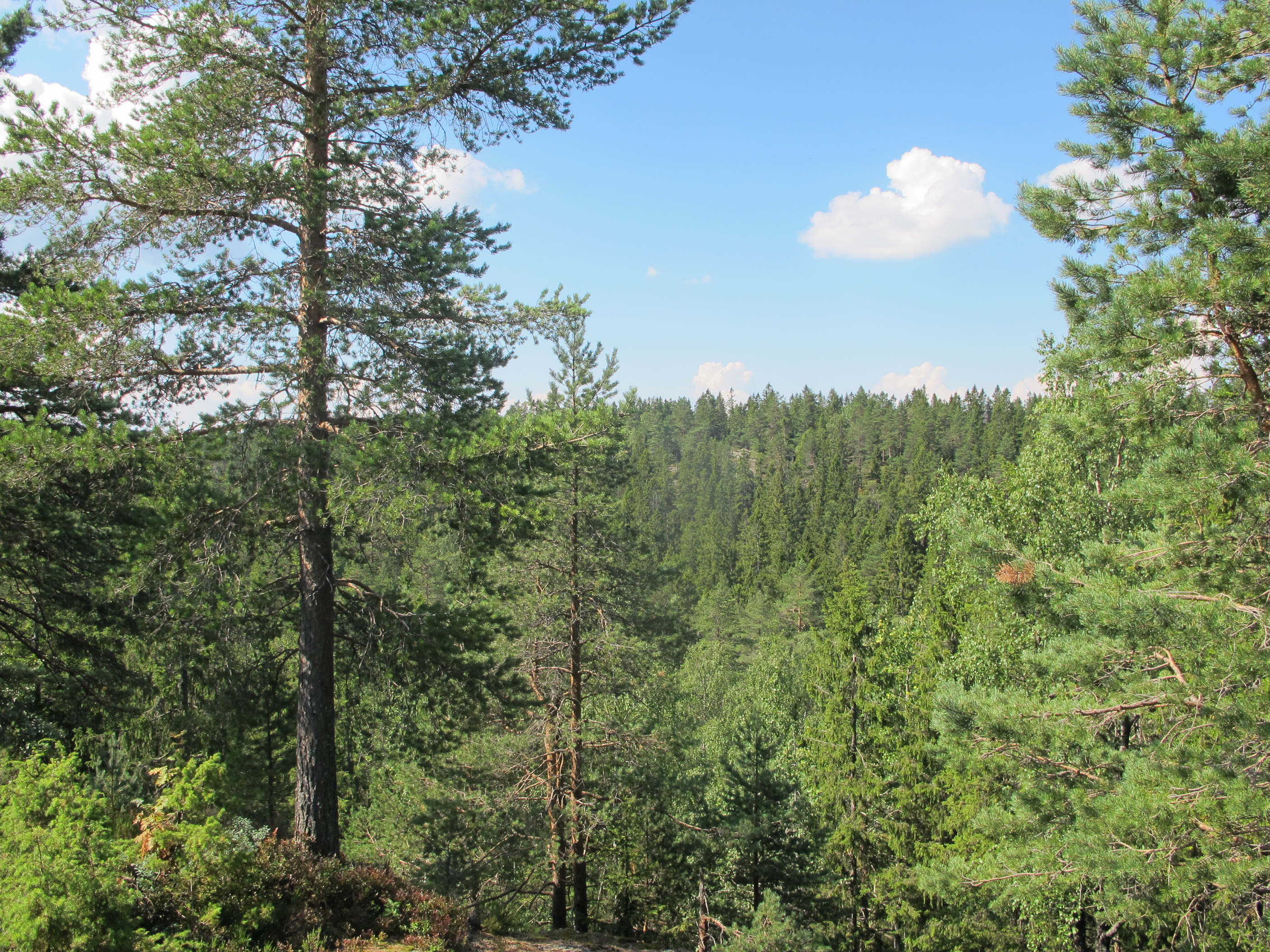 Ramstadslottet looking at BarlindåsennNorsk bokmål: Ramstadslottet mot Barlindåsen